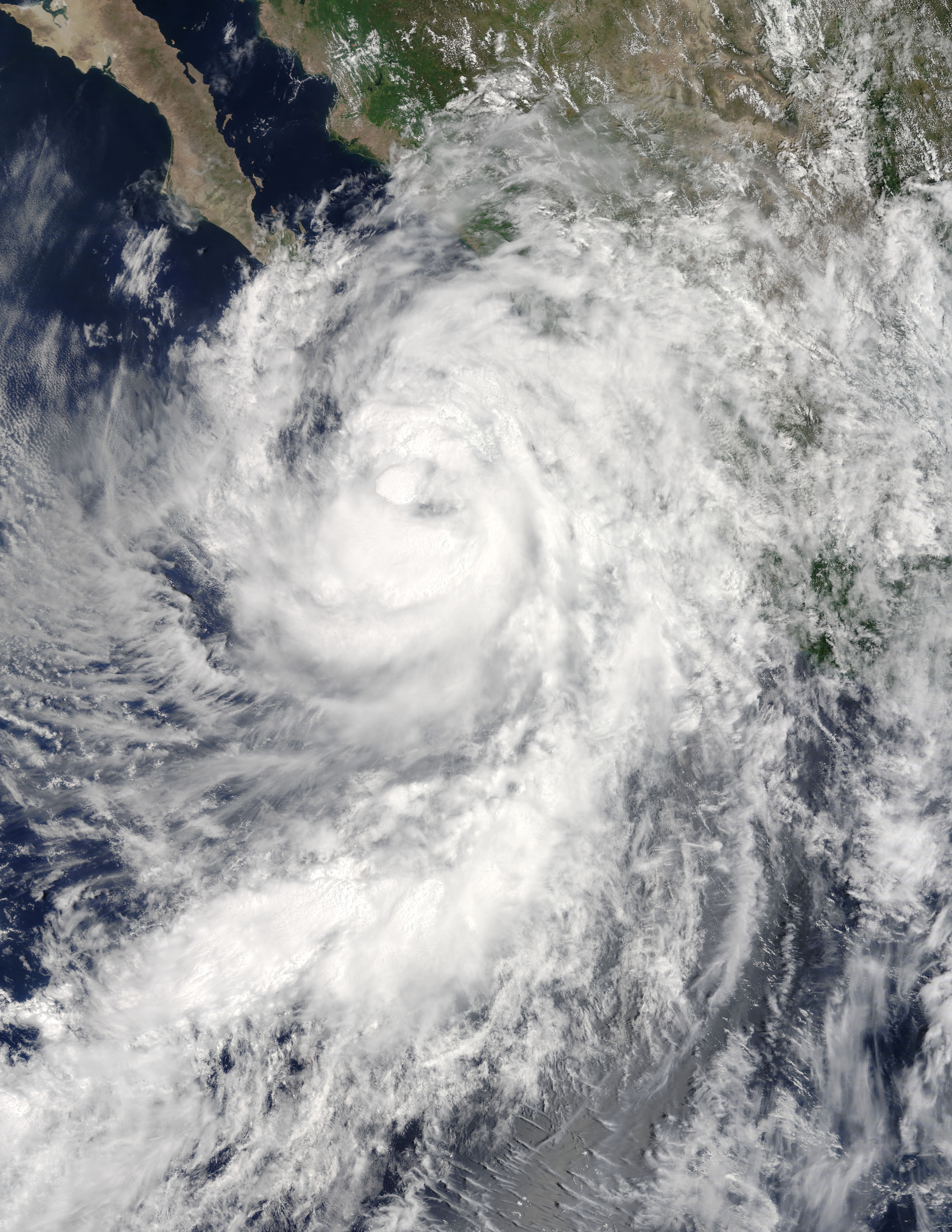 Tropical Storm Newton (15E) over Mexico